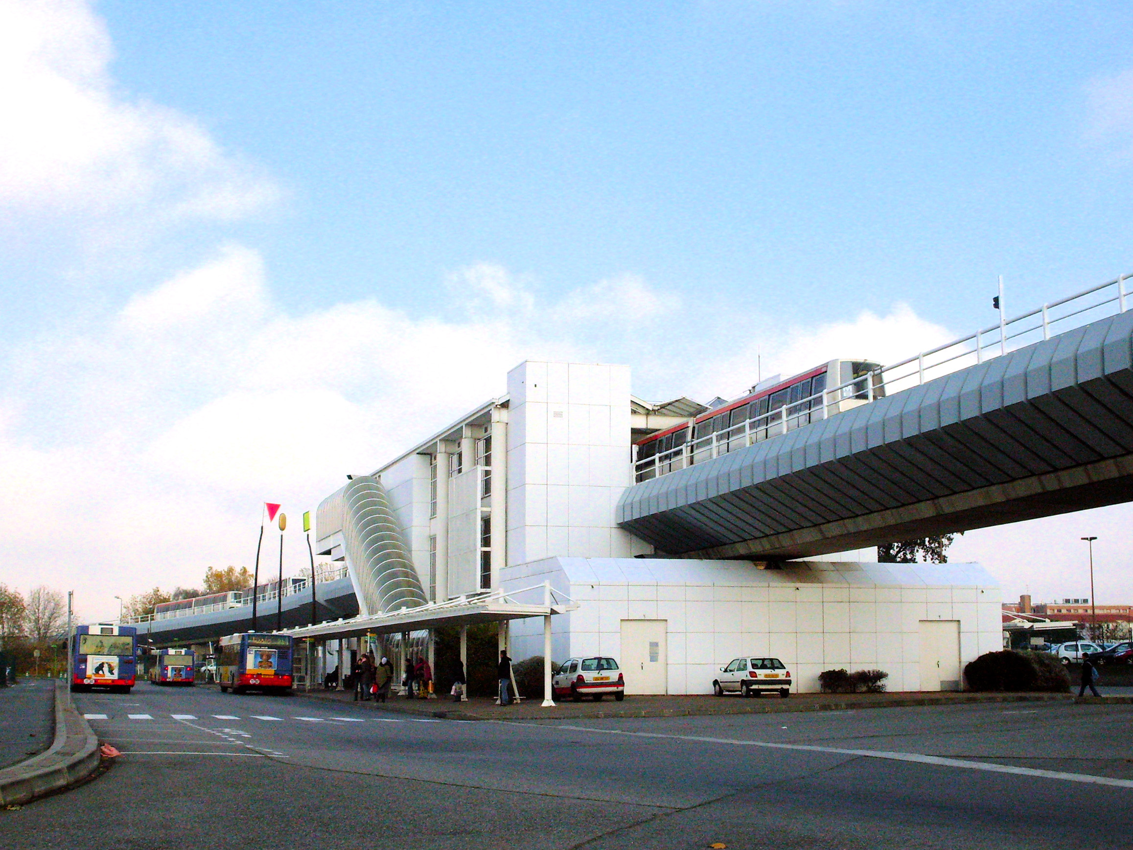 Basso Cambo, last station in the line A of the Toulouse metro. Back the station, the access to de depot can be seen.